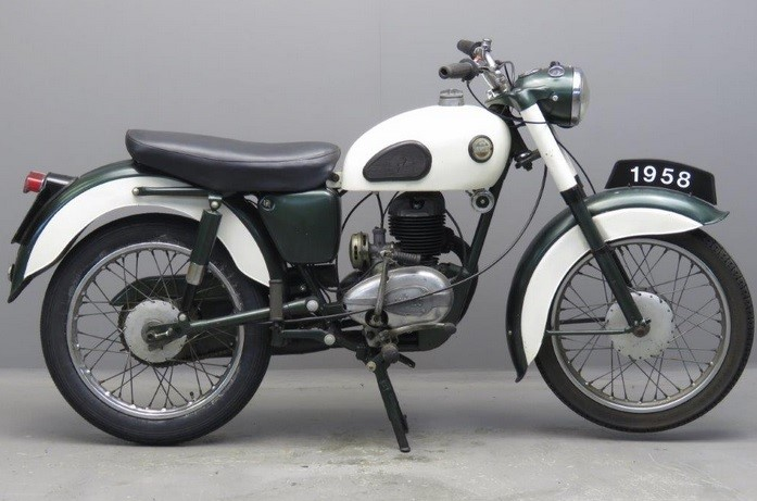 1958 James Cadet L15 147 cc two stroke (Villiers)